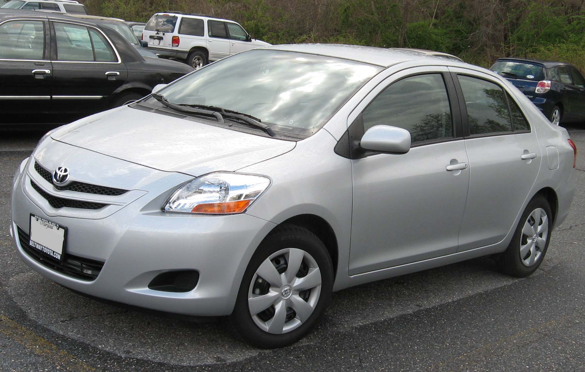 2007 Toyota Yaris photographed in USA.